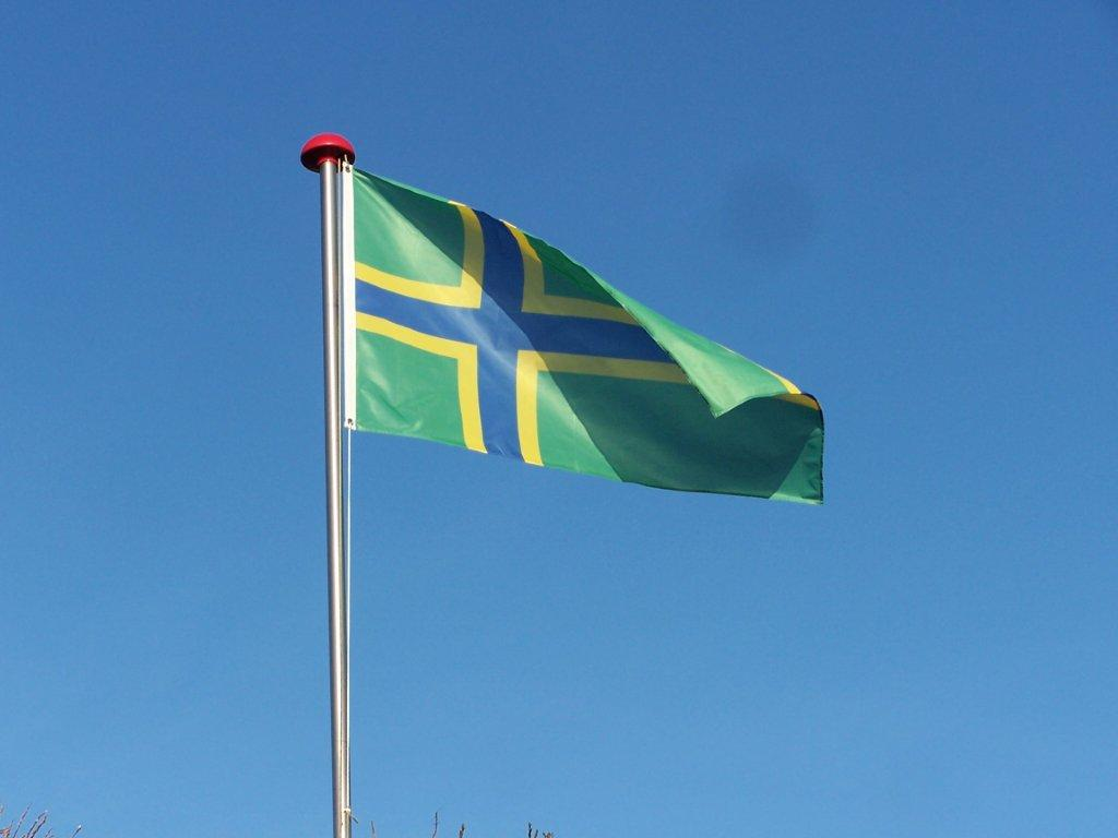 Plattdüütsch Flagg